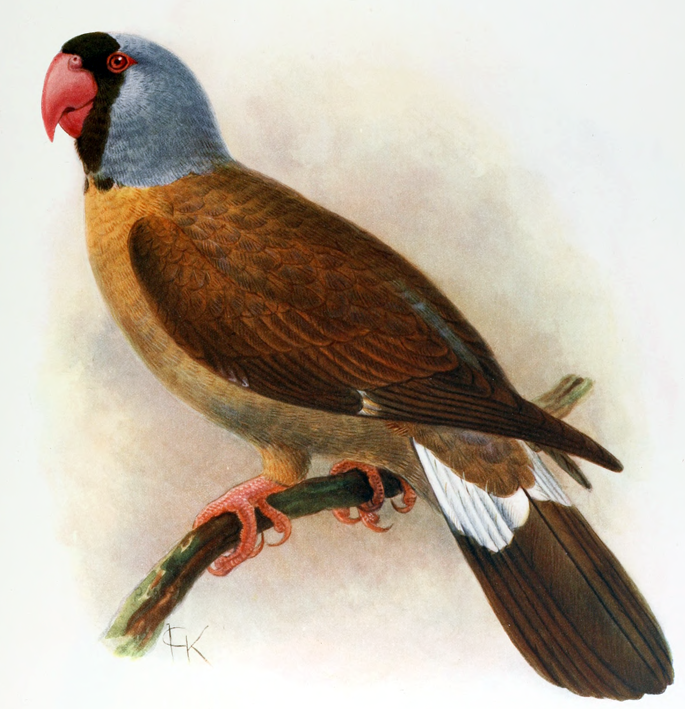 The Mascarene Parrot (Mascarinus mascarinus) is an extinct species of parrot known from bones, specimens and descriptions to have occurred in the Mascarene island of Réunion, and possibly Mauritius. This illustration is based on an 1893 Keulemans illustration of the specimen in Paris.[1]